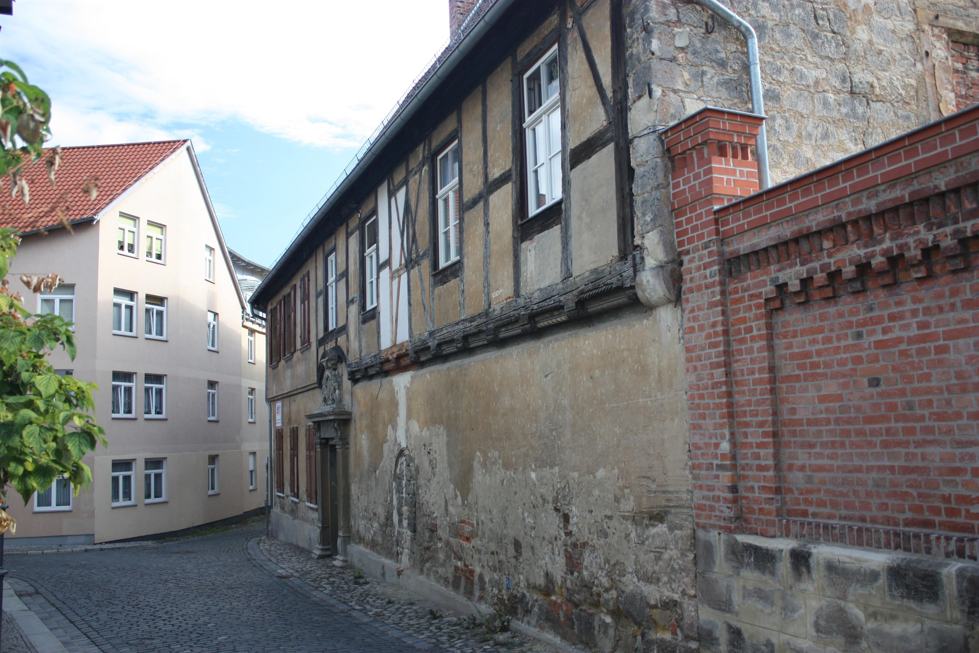 This is a photograph of an architectural monument.It is on the list of cultural monuments of Quedlinburg Quedlinburg Lange Gasse